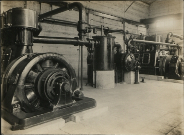 Kuching Electrical Power Station 1922. Shown in the picture are the Belliss and Morcom engines. Location: Kuching, Borneo Date: 1922 Our Catalogue Reference: Part of CO 1069/549. This image is part of the Colonial Office photographic collection held at The National Archives. Feel free to share it within the spirit of the Commons. Please use the comments section below the pictures to share any information you have about the people, places or events shown. We have attempted to provide place information for the images automatically but our software may not have found the correct location. For high quality reproductions of any item from our collection please contact our image library